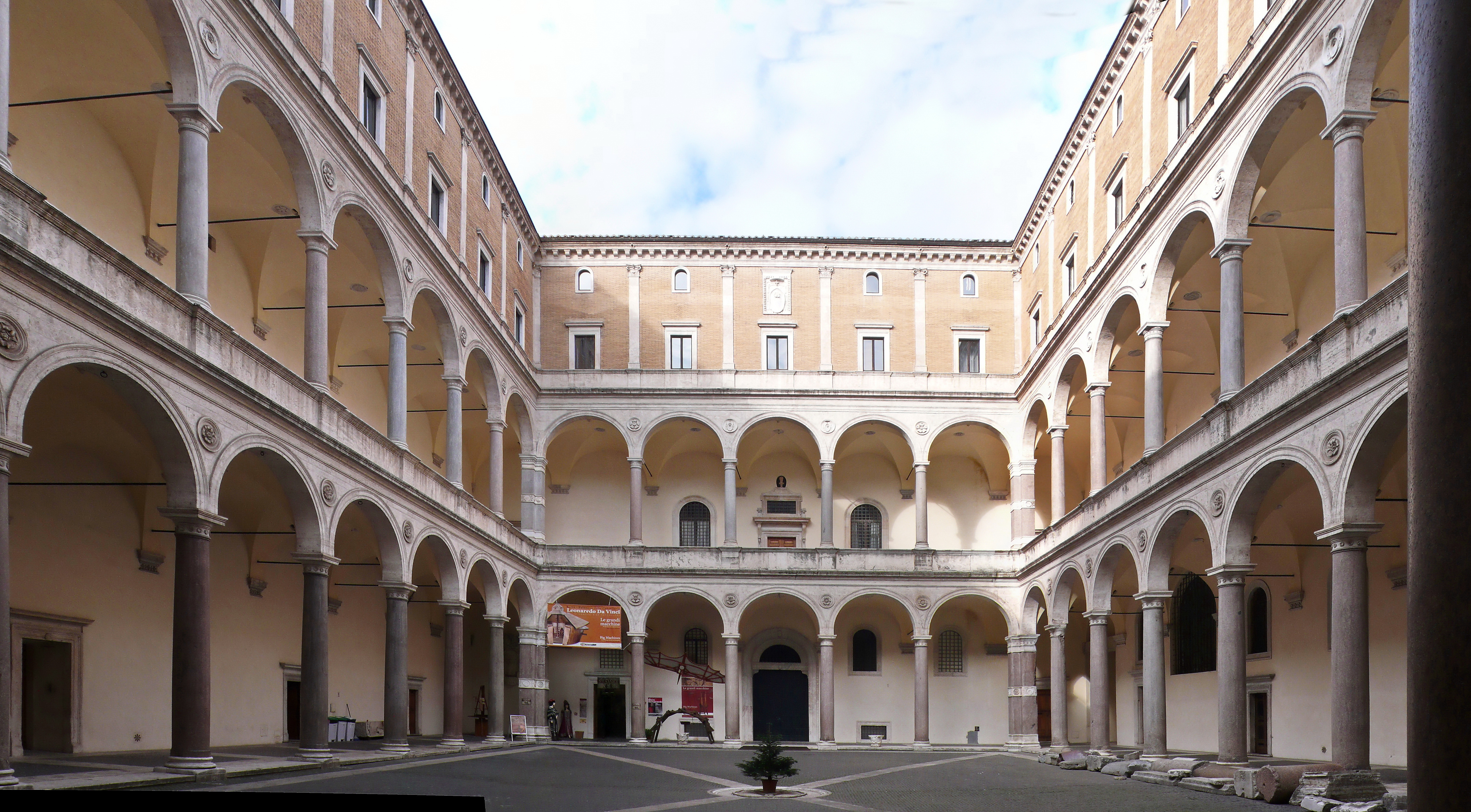 Cortile, Palazzo della Cancelleria, Roma, Italy